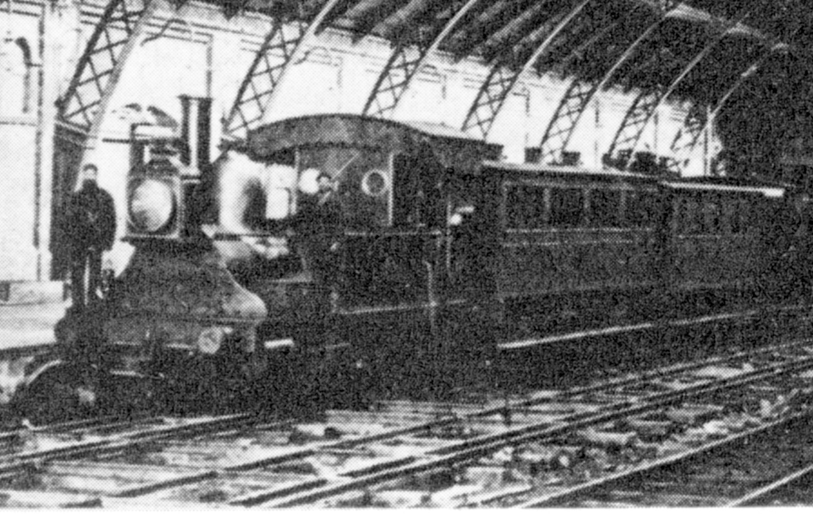 Cape Government Railways, ex Cape Town Railway & Dock 2-4-0T no. 10 "Ebden" about to leave Cape Town station with a train for Wynberg